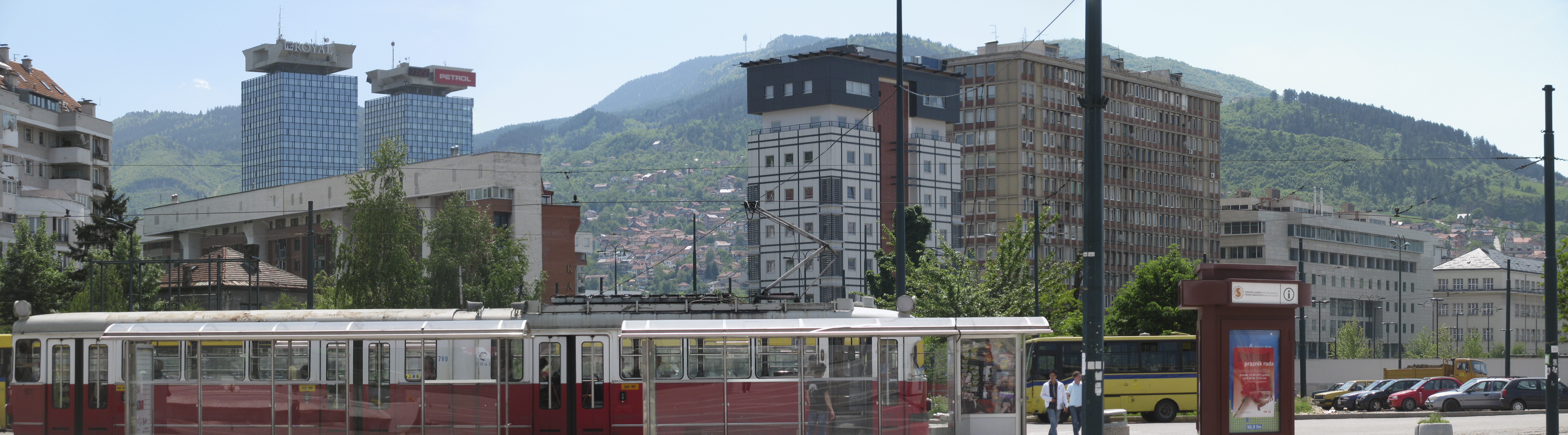 View onto Marijin Dvor, Sarajevo